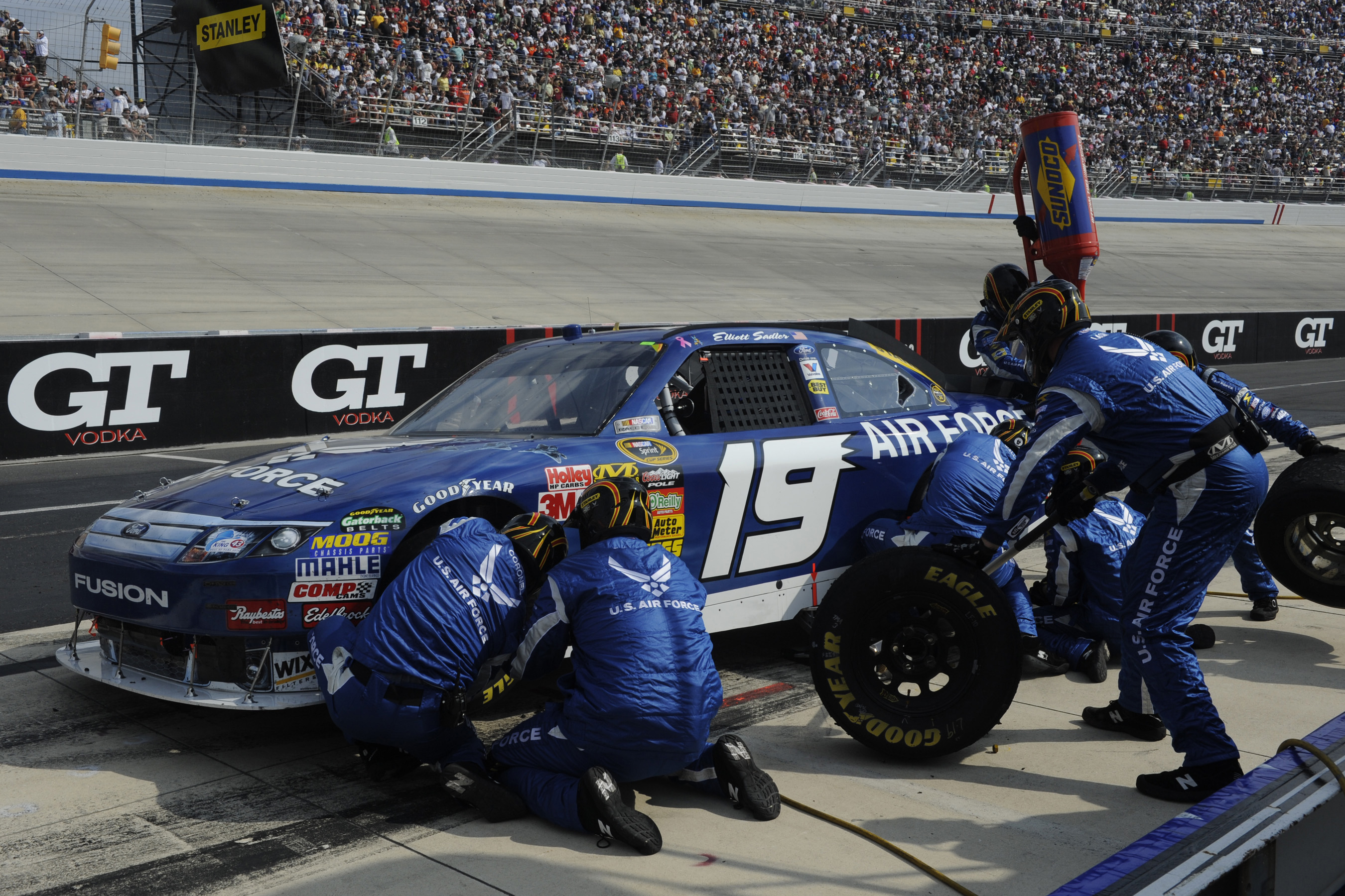 Members of Elliot Sadler's pit crew scramble to get the No. 19 Air Force car back in the race at Dover International Speedway, Dover, Del., Sept. 26, 2010. Sadler's Air Force car was one of 43 competitors in the NASCAR Sprint Cup AAA 400 race. (U.S. Air Force photo by John Sidoriak/Released)